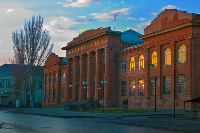 Building "A" - TAGANROG, Chekhov Str., 22